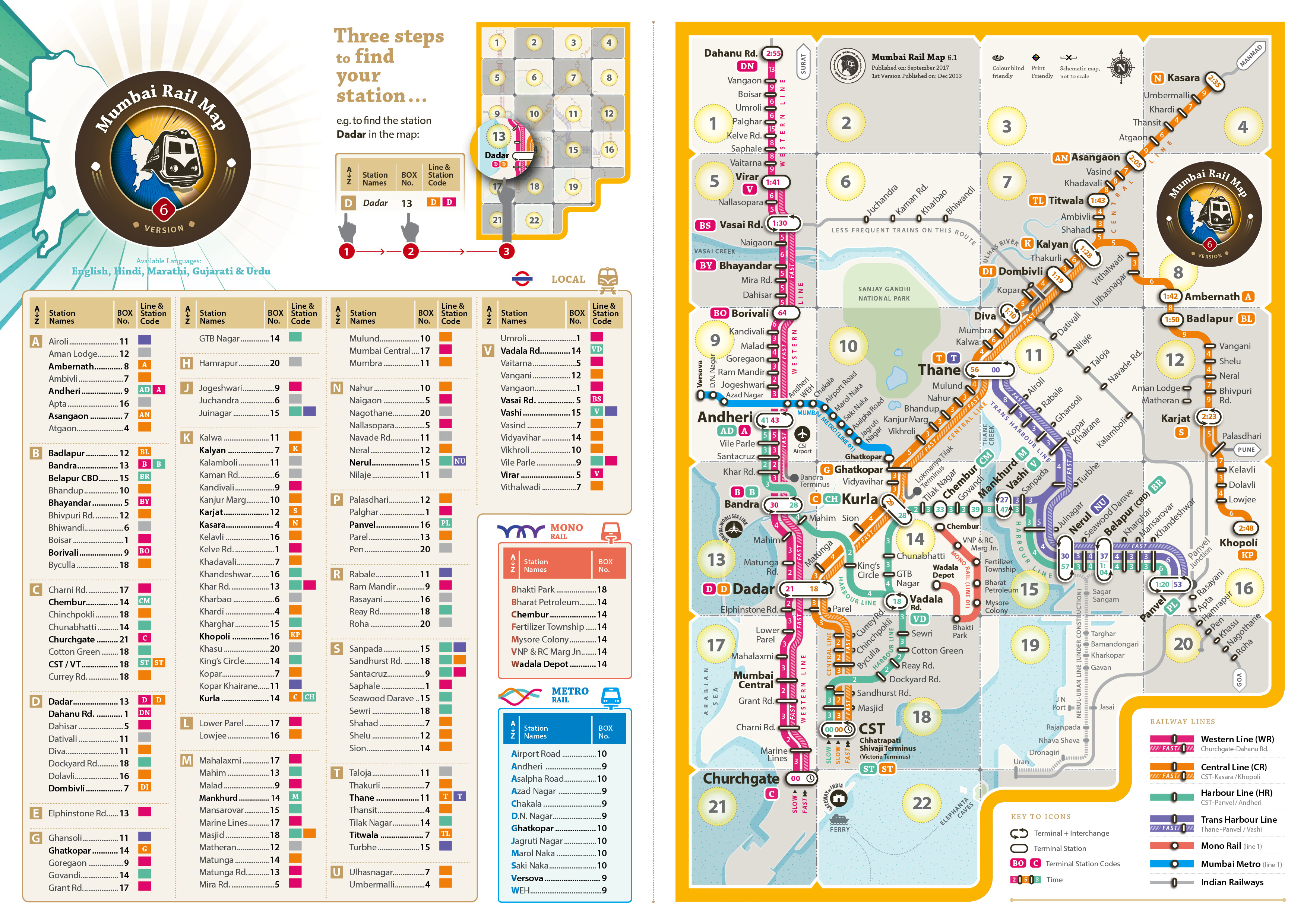 Complete map with index for Mumbai suburban rail network in English language | Version: 6.1 | Updated: September 2017